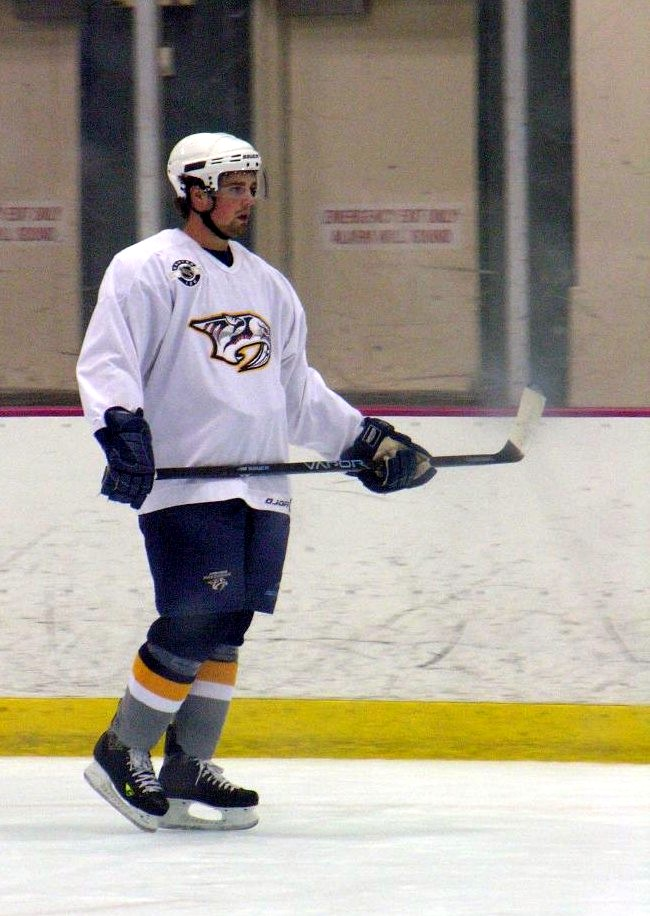 The Canadian ice hockey player Dan Hamhius, playing for the NHL team Nashville Predators, at a training in the Sommet Center in Nashville, Tennessee.